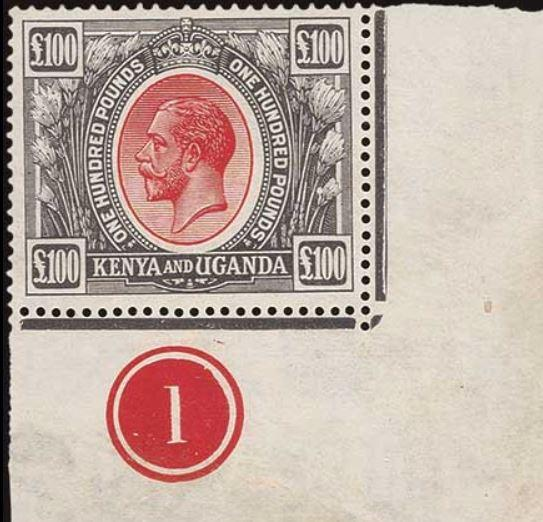 Kenya & Uganda £100 SG105